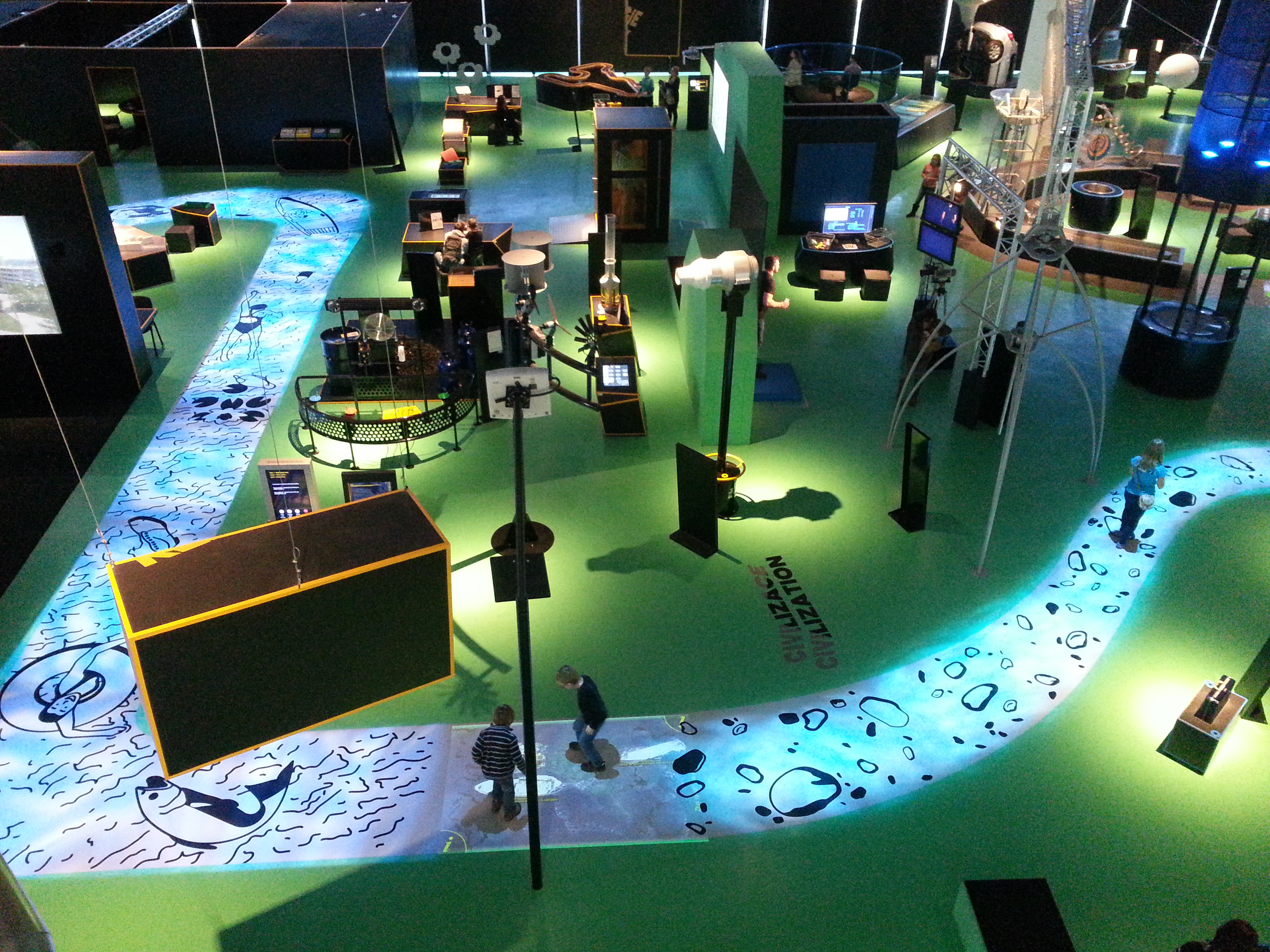 A view from the second floor of the Vida! Science Centrum in Brno, Czech Republic.